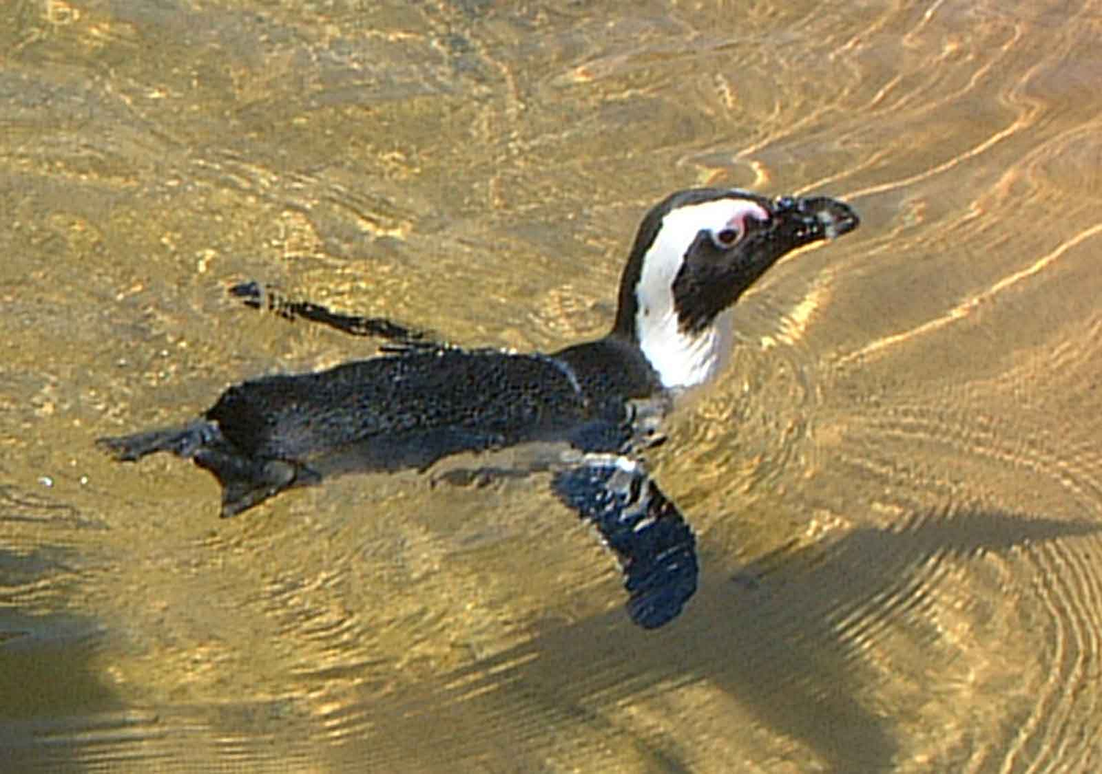 Personal photograph taken on May 15th by Mick Knapton.